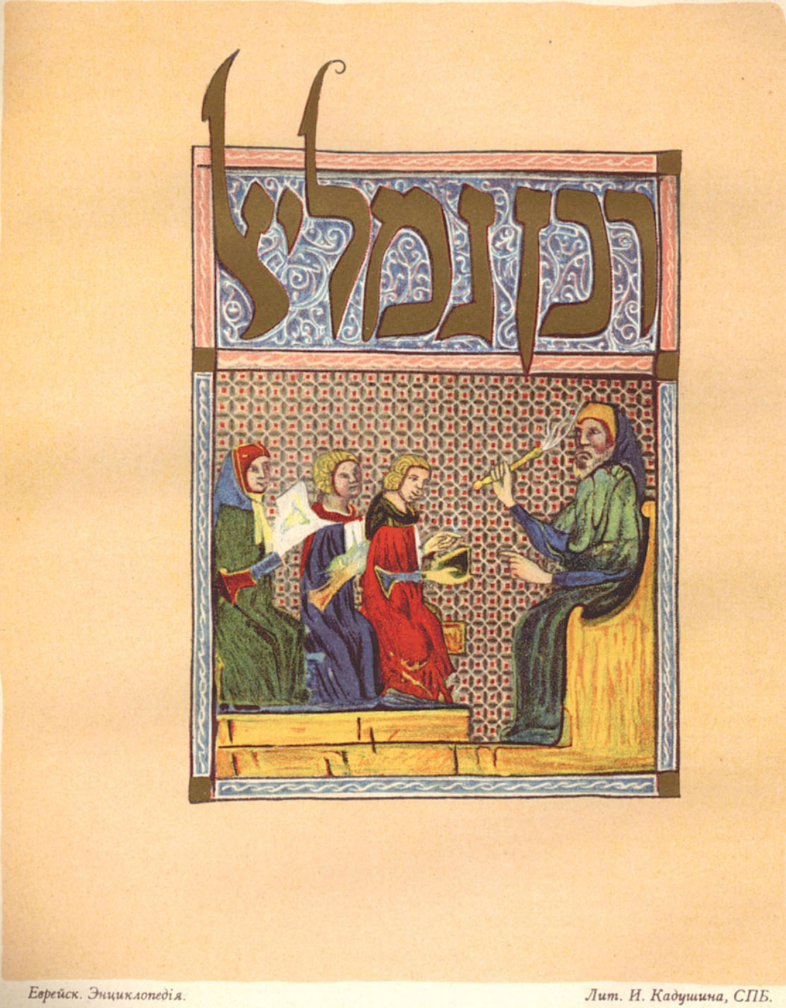 Illustration from Brockhaus and Efron Jewish Encyclopedia (1906—1913); the Hebrew caption above the miniature "רבן גמליﭏ" means "Rabbi Gamliel" (the leftmost letter is an aleph-lamed ligature). The image was taken from a copy of the Sarajevo Haggadah.